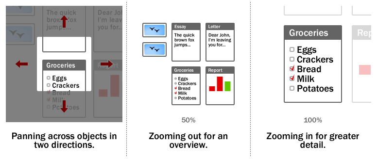 Example of a Zooming User Interface. Notes See :Image:ZUI example without text.png for a version without text (for translation). --Foofy 20:17, 22 May 2006 (UTC)